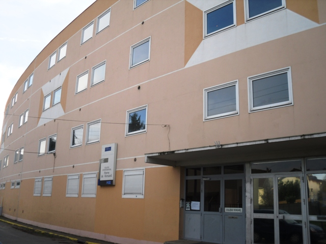 The collège (middle school) Pierre Ronsard in Paray-Vieille-Poste